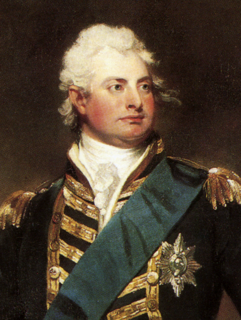 Admiral The Duke of Clarence (later King William IV) (1765–1837) in full dress uniform